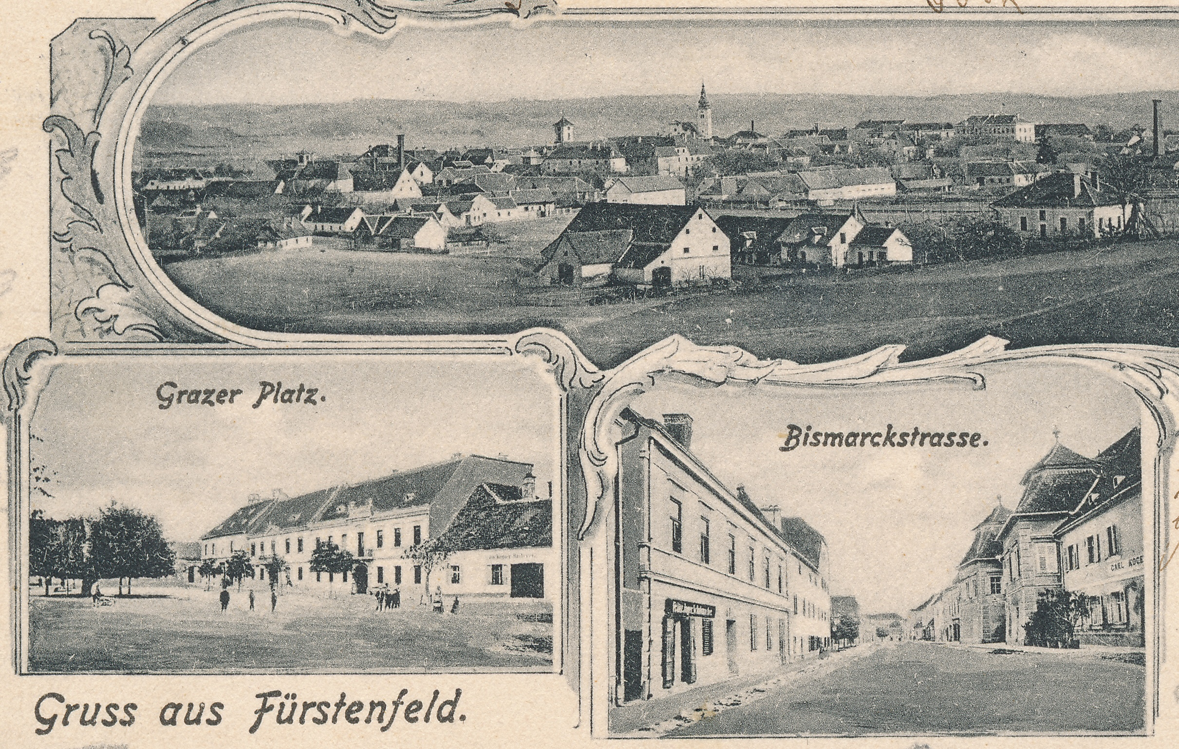 Fürstenfeld anno 1905